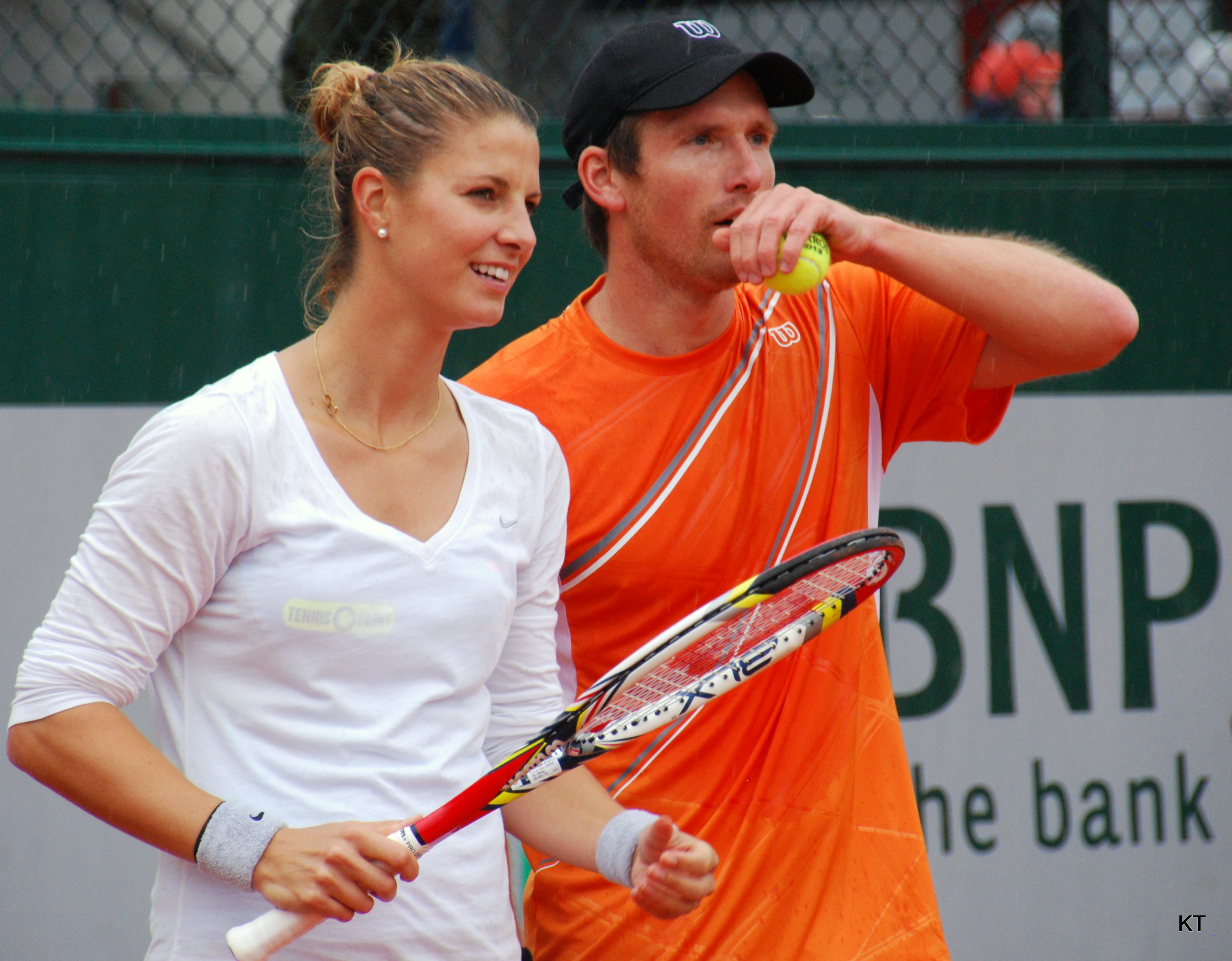 Mandy Minella & Alexander Peya at 2013 Roland Garros